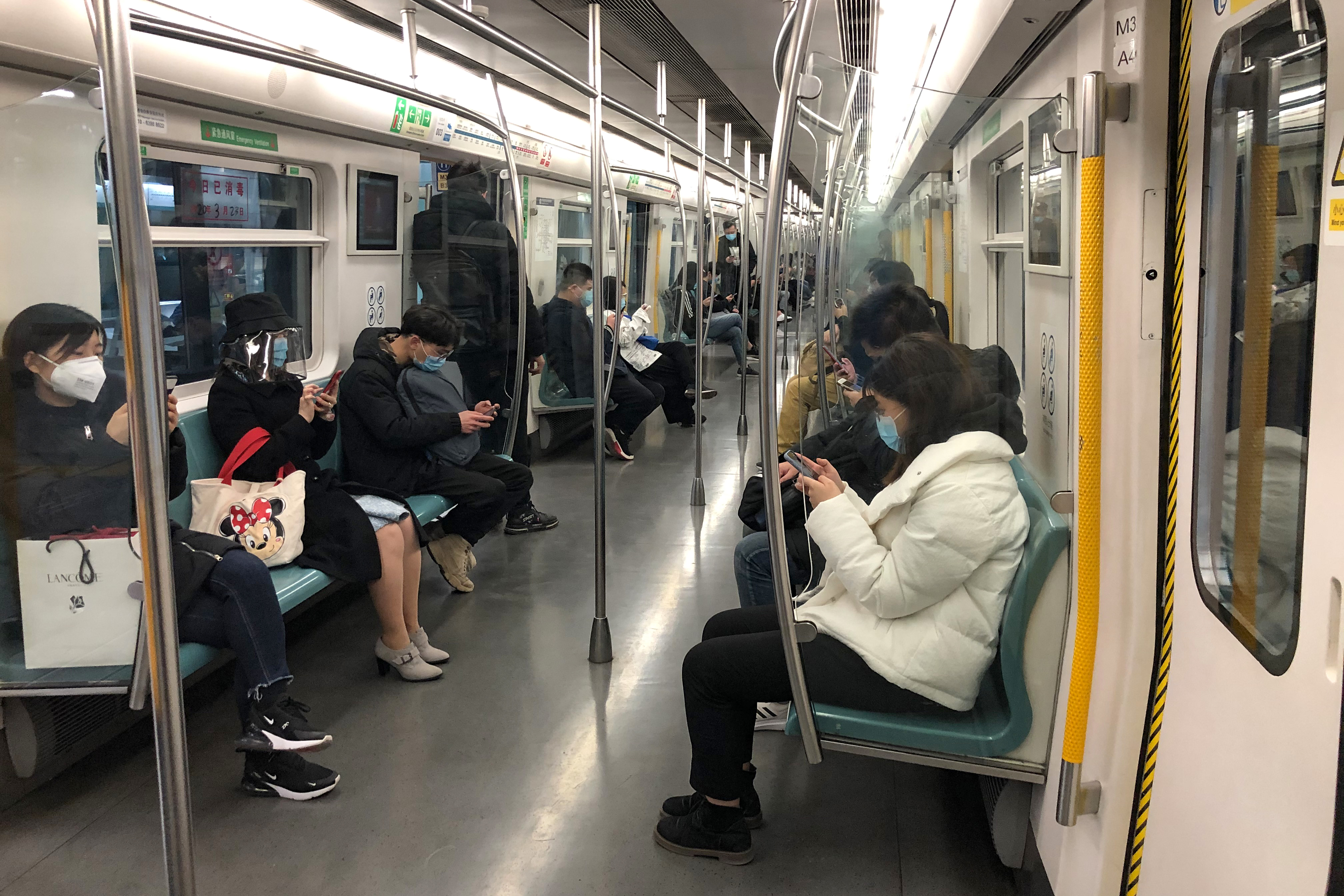 Evening peak of Line 4 under COVID-19... still we have seats. The transmission of the virus in the country, with Wuhan as the main battlefield, has basically been interrupted, but there still are some reported cases and risks of local outbreaks.